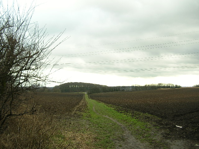 Footpath from Kippax to Mary Panel. Looking south-west through the field, with Ferrybridge in the distance in the west, Castleford over the hill to the south.